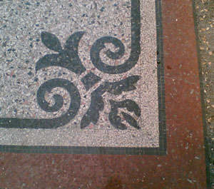 Terrazzo in the Passage in The Hague.